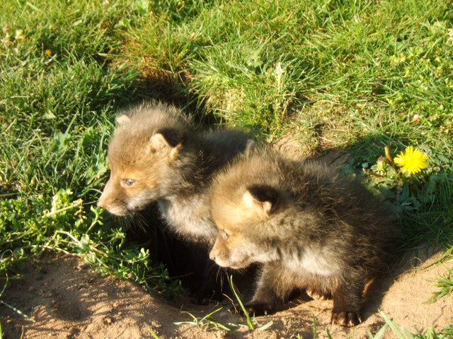 Fox cubs Taken on Millfield golf complex